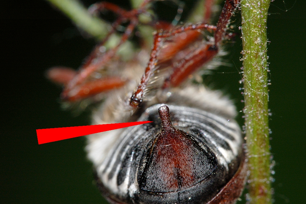 Melolontha hippocastani, Darmstadt, Germany